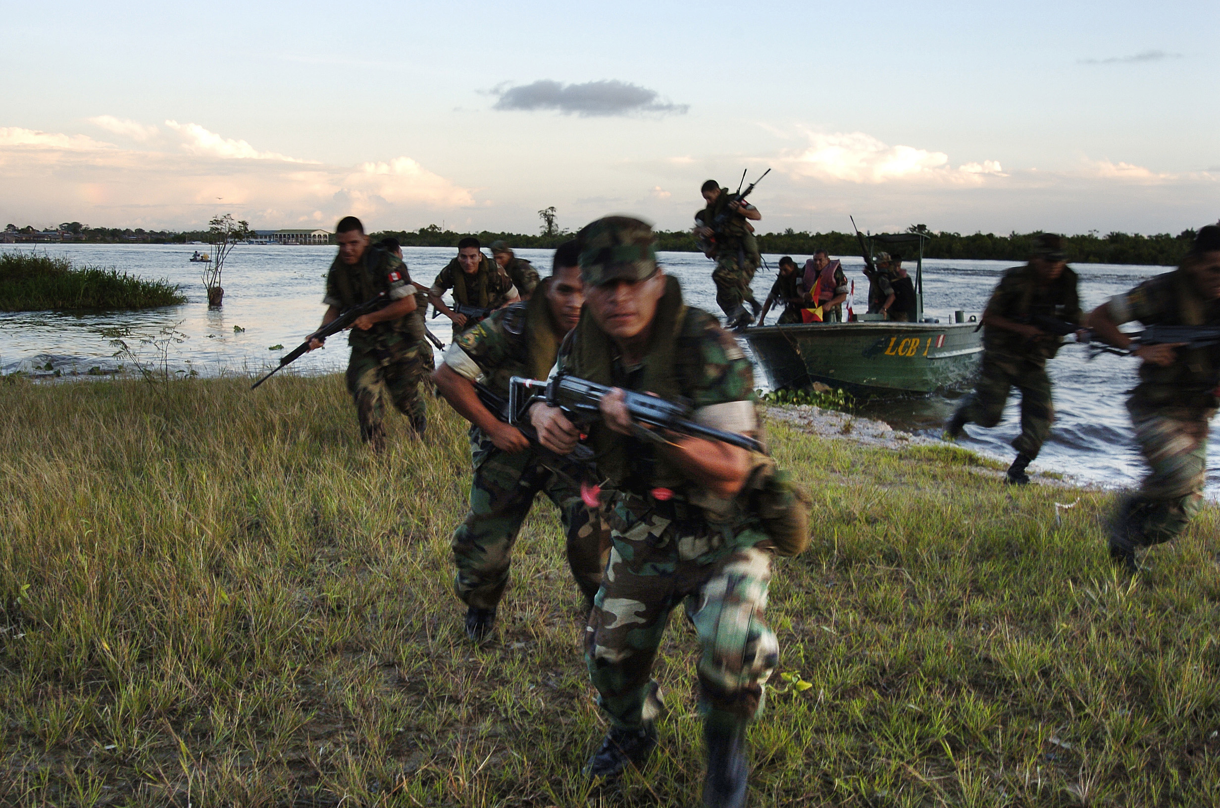 Iquitos, Peru (June 26, 2004) - Peruvian Marines conduct a beach assault during UNITAS 45-04 field training along the Amazon River. Eleven partner nations from the U.S. and Latin America are supporting the largest multilateral exercise in the Southern Hemisphere. Held Since 1959, UNITAS aims to unite military forces throughout the Americas with bilateral and multilateral shipboard, amphibious and in-port exercises and operations. UNITAS improves operational readiness and interoperability of U.S. and South American naval, coast guard, and marine forces while promoting friendship, professionalism and understanding among participants. U.S. Navy photo by Chief Journalist Dave Fliesen (RELEASED)